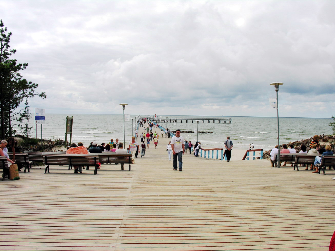 Bridge into the sea in Palanga. Foto: Algirdas, 2006 m. birželio 29 d.